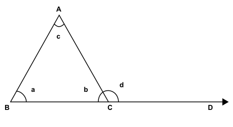 The diagram for the remote Interior Angle Theorem.